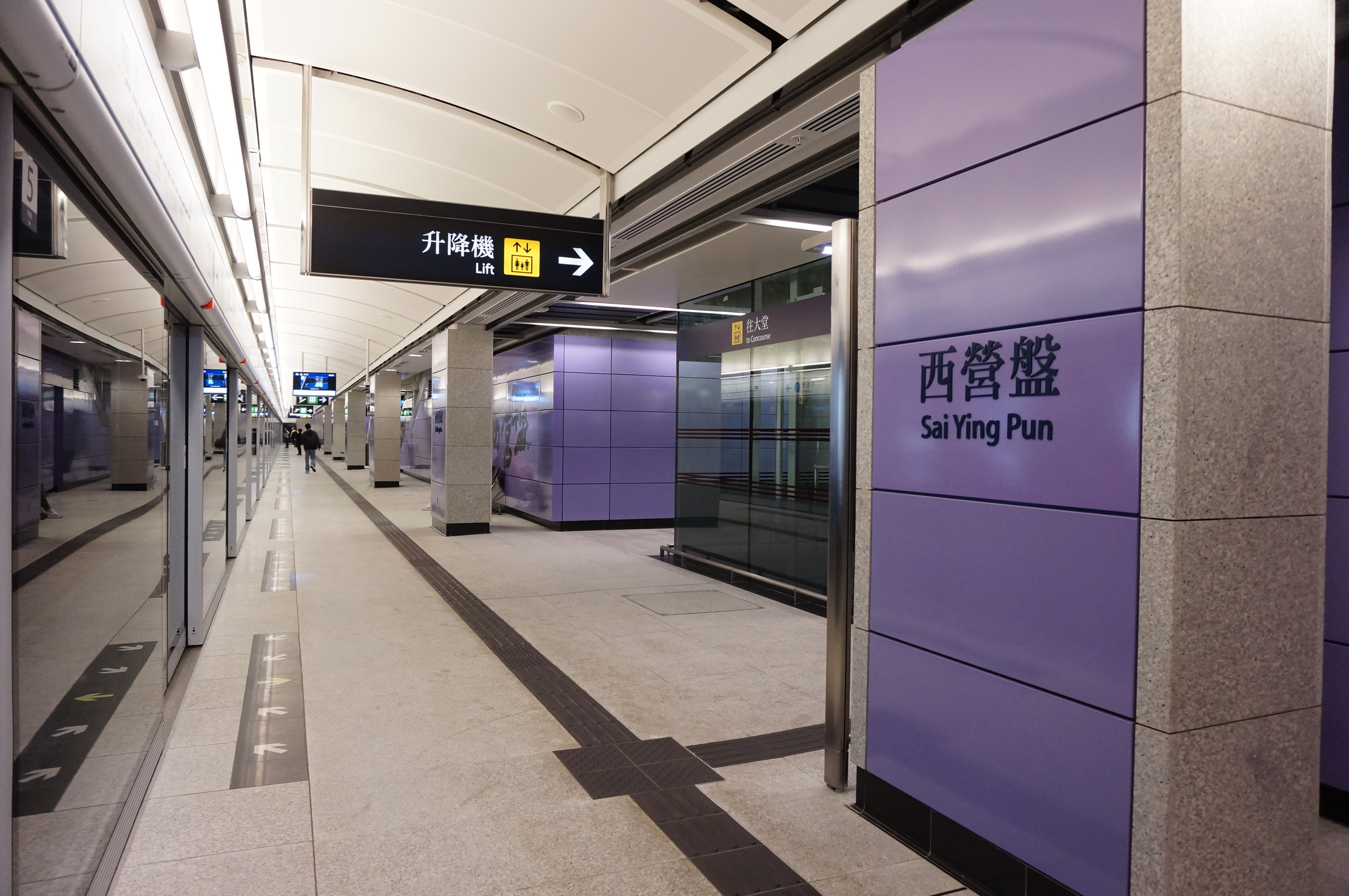 Sai Ying Pun Station